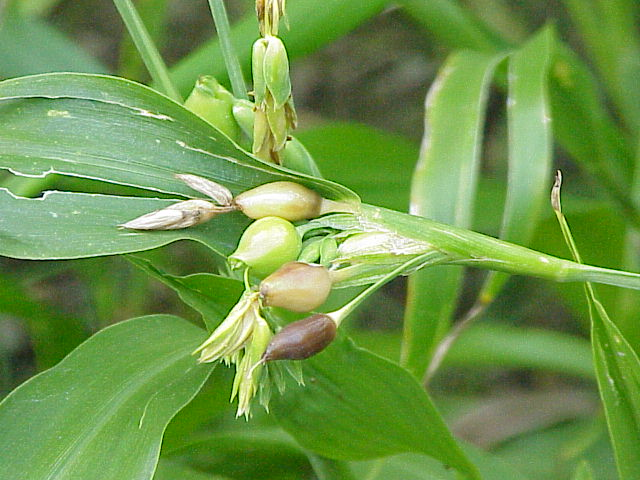 Species: Coix lacryma-jobi Family: Poaceae Image No. 1